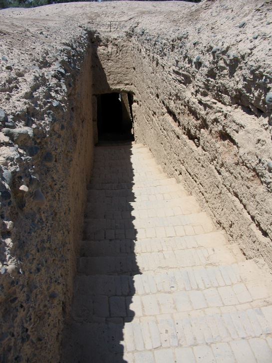 Stairs leading down to an underground tomb at the Astana Graves. Photo taken in June 2007.